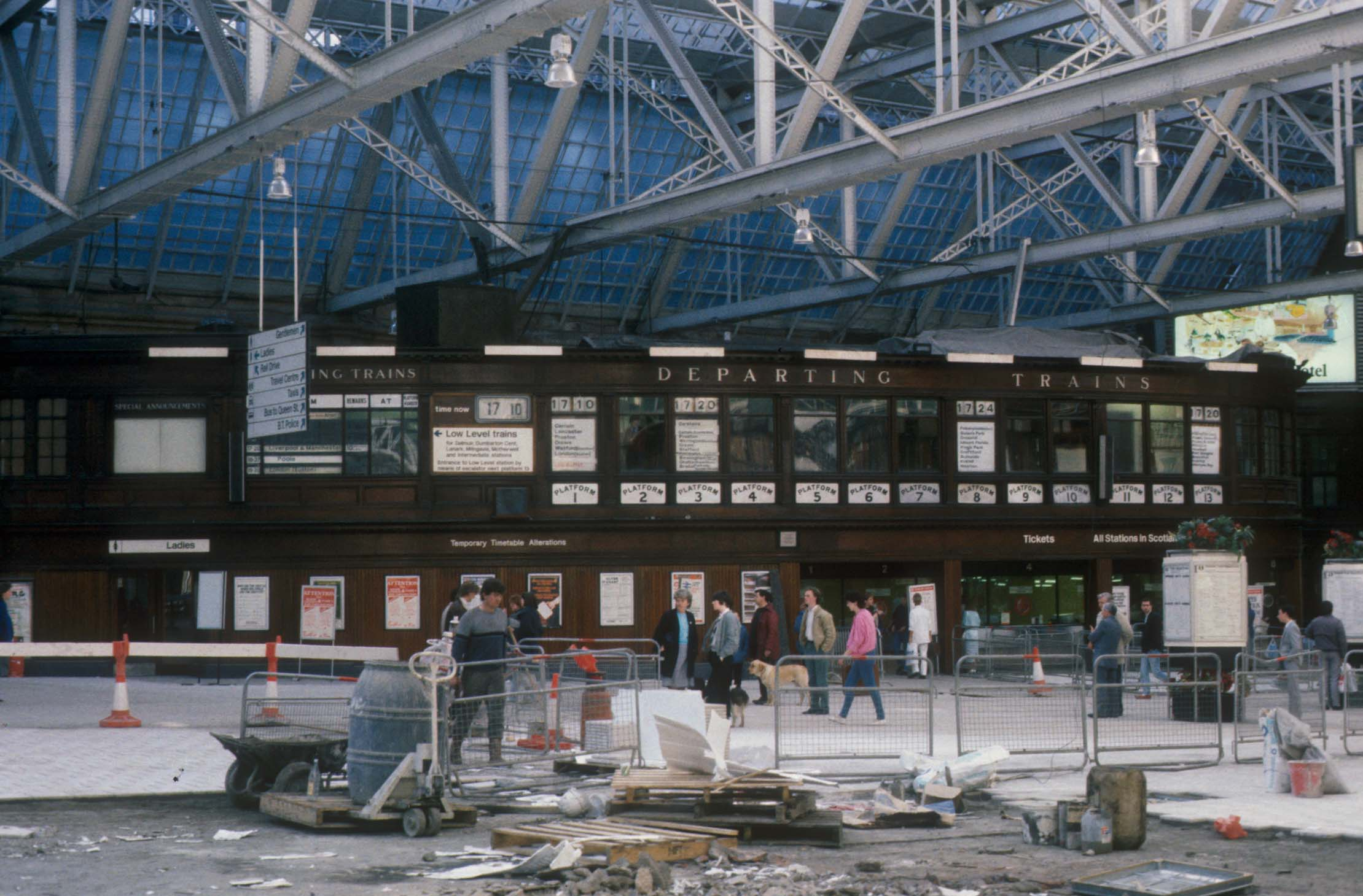 The Caledonian Railway destination board on 21 May 1985, whilst the new flooring surface was being laid.